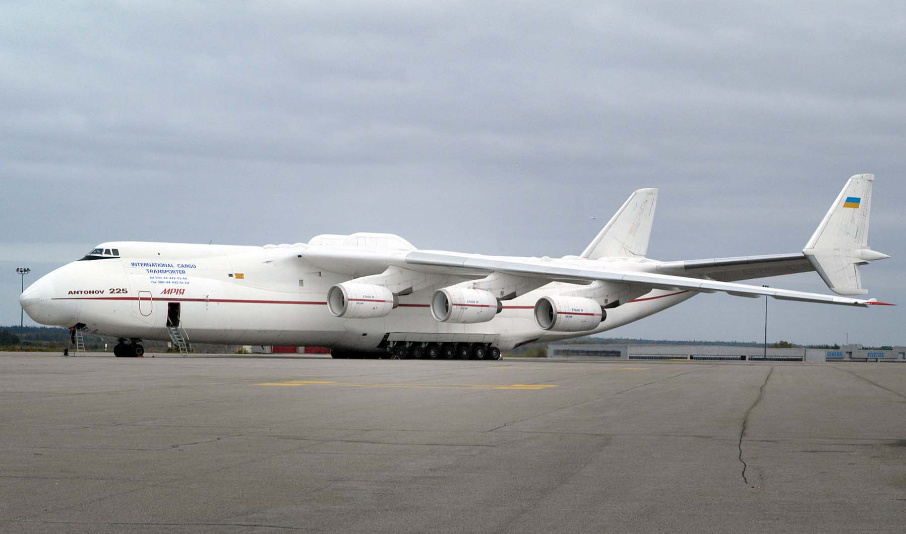 Antonov 225 at CFB Gander, Newfoundland.